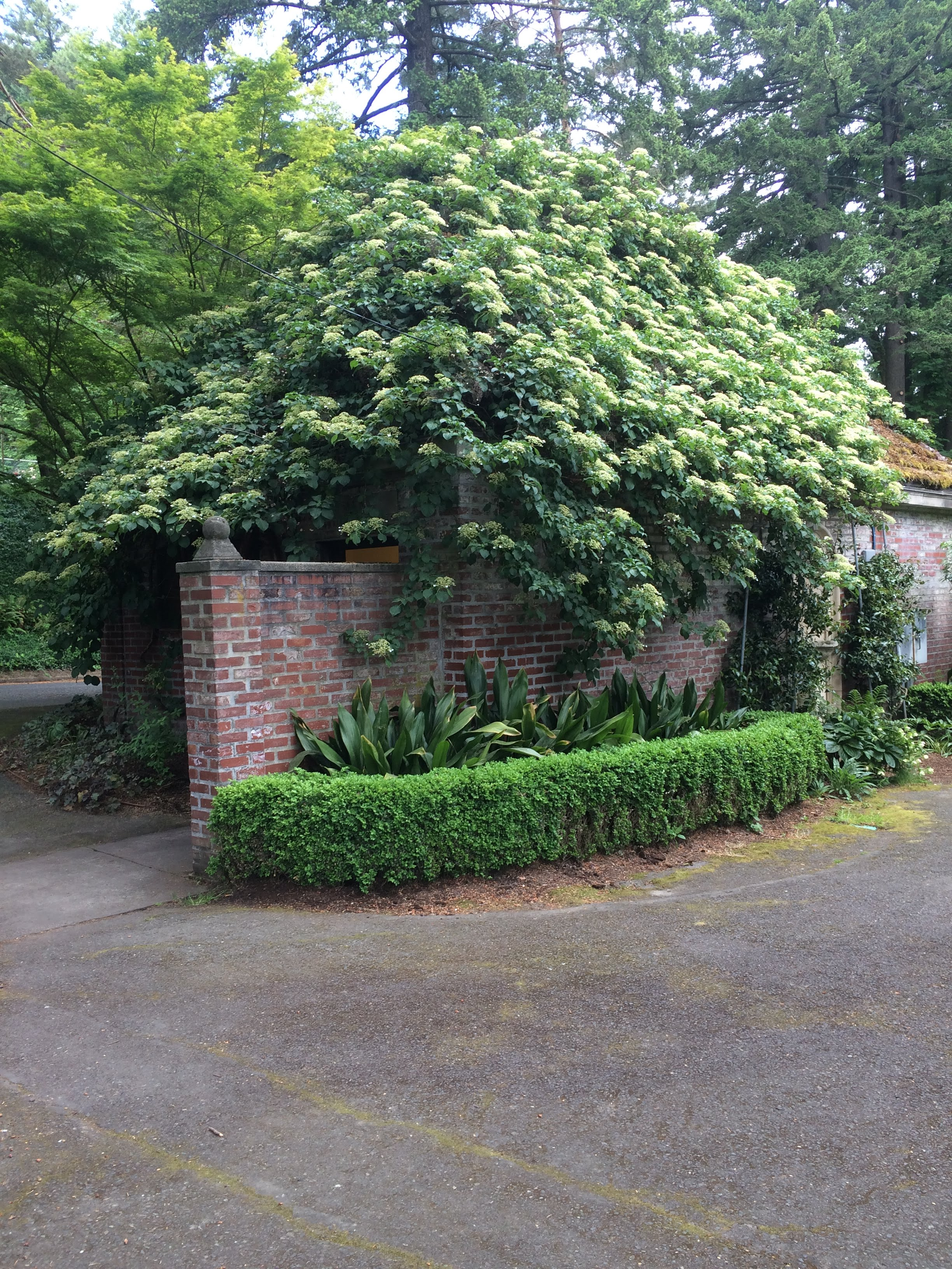 Exquisite Ivy, June 2018